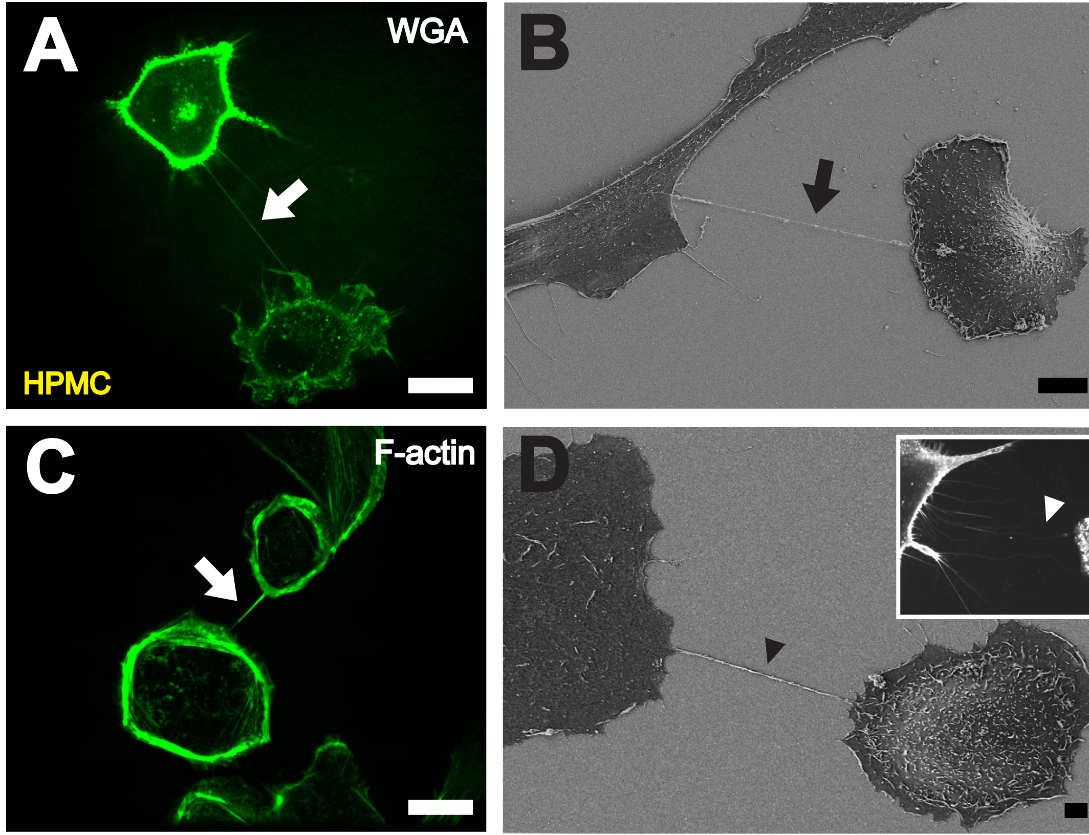 A. High resolution 3D live-cell fluorescence image of a NT (white arrow) connecting two primary mesothelial cells one hour after plating on a collagen I coated glass cover slide. To facilitate detection, cell membranes were stained with WGA Alexa Fluor® 488. Scale bar: 20 µm. B Depiction of a NT (black arrow) between two cells with scanning electron microscopy one hour after cell plating. Scale bar: 10 µm.C F-actin staining by fluorescently labeled phalloidin showing actin being present in NTs between individual HPMCs (white arrow). Scale bar: 20 µm.D Scanning electron microscope picture of a substrate-associated filopodia-like extension as potential NT precursor (black arrowhead). The insert shows a fluorescence microscopic image of substrate associated filopodia-like protrusions approaching a neighboring cell (white arrowhead). Scale bar: 2 µm.